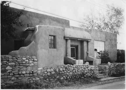 Canyon Road entrance of the Gerald Cassidy house, Santa Fe, New Mexico